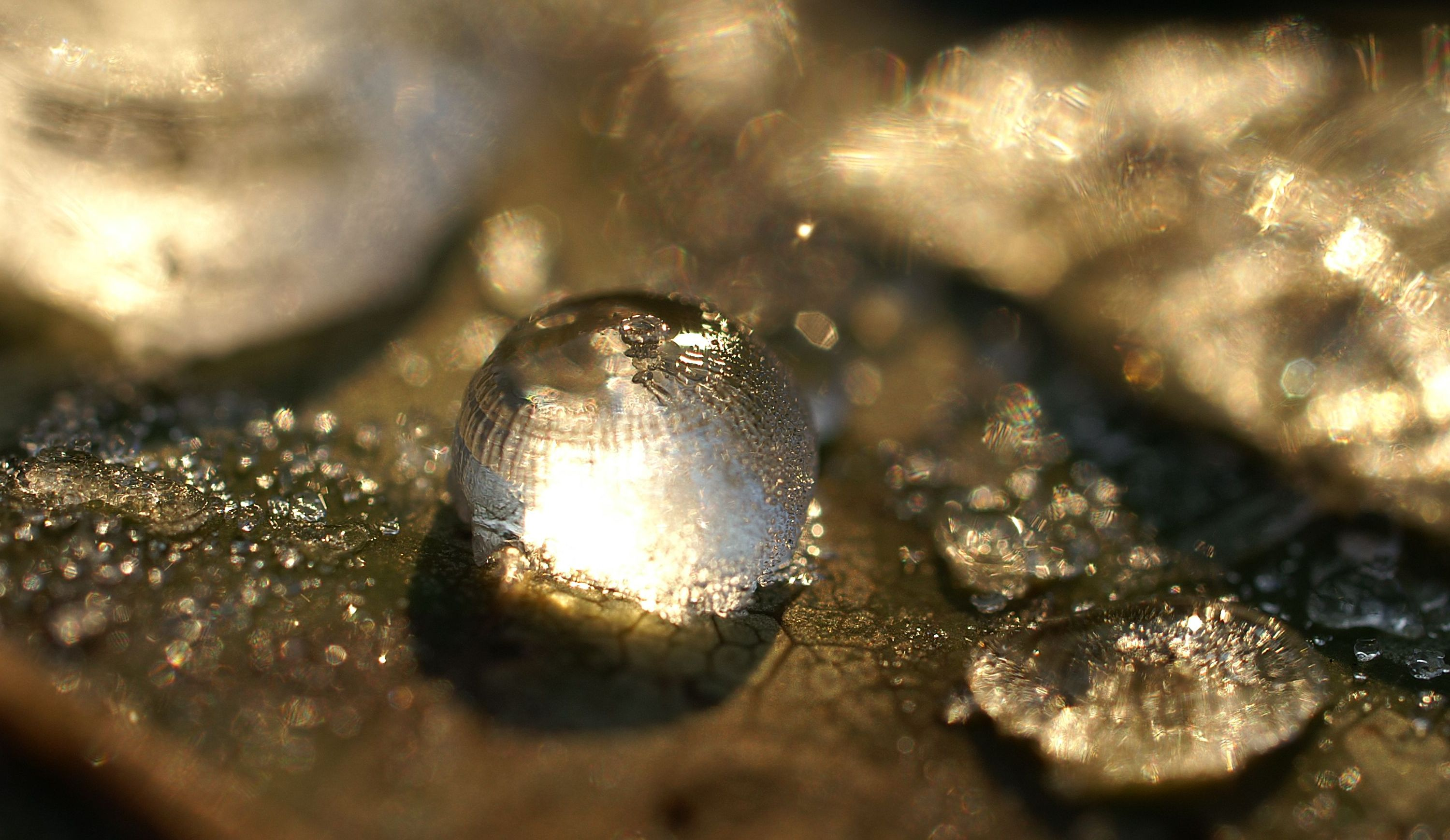 A frozen drop of water ice on a leaf. The shape of the water drop resulted from the leaf movement. The leaf is on a busy street, along a wall at temperatures below freezing.